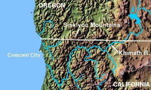 Map of the Siskiyou Mountains — a mountain range in the Klamath Mountains System of northwestern California and southeastern Oregon.